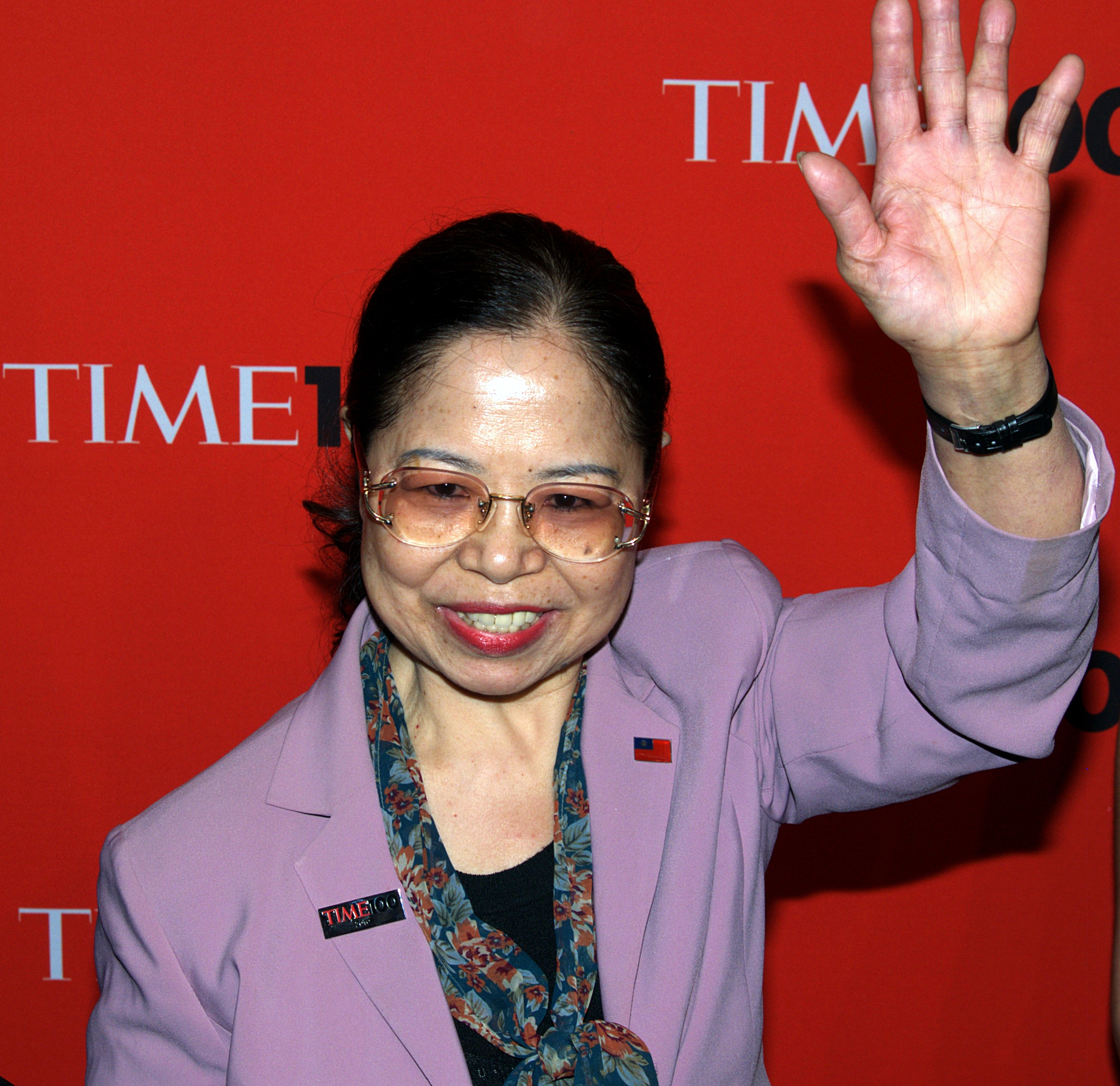 Chen Shu-Chu, a 2010 Time 100 in Heroes category